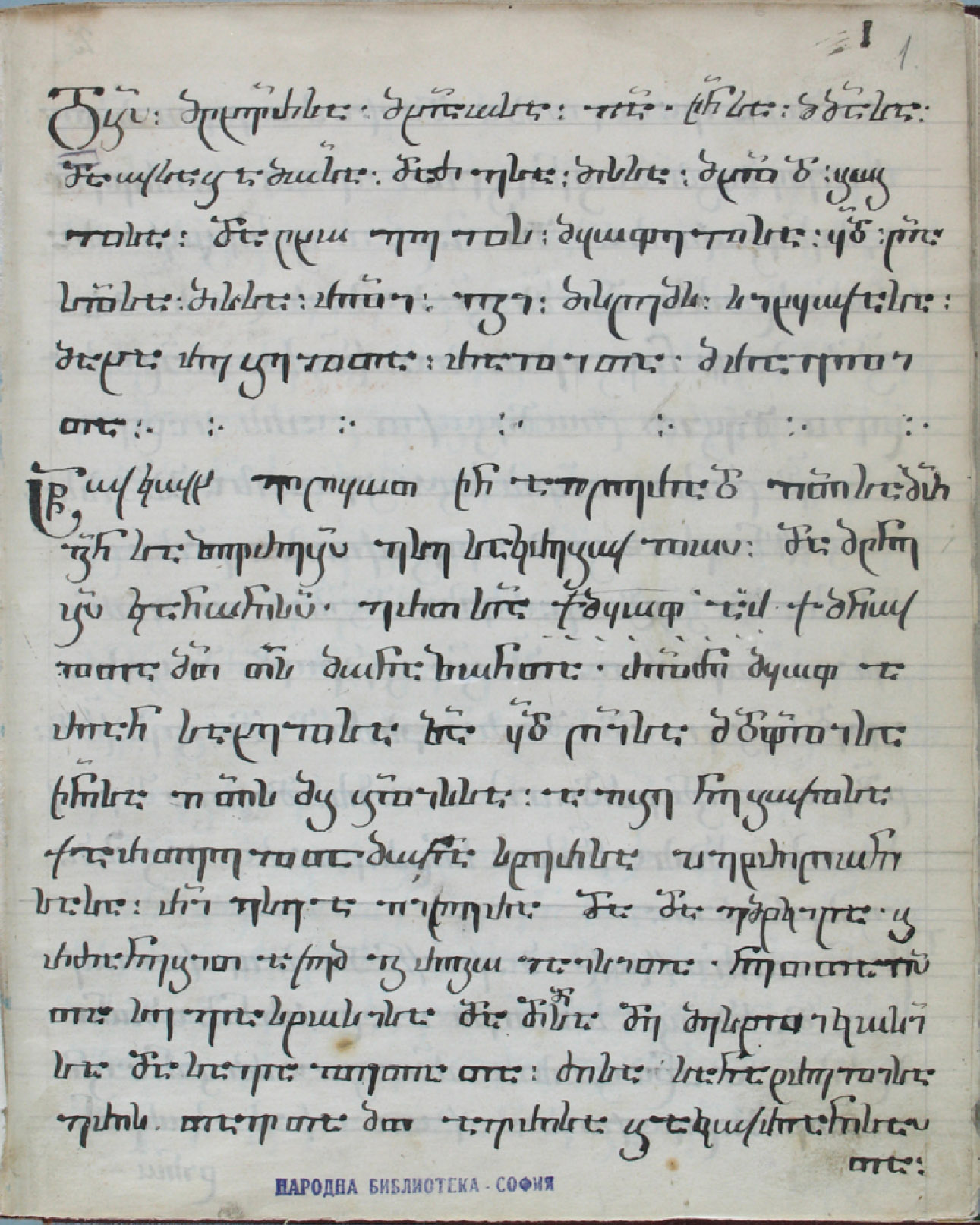 Bochkovi (Petritsoni) monastery tipikon (Sofia)-first page